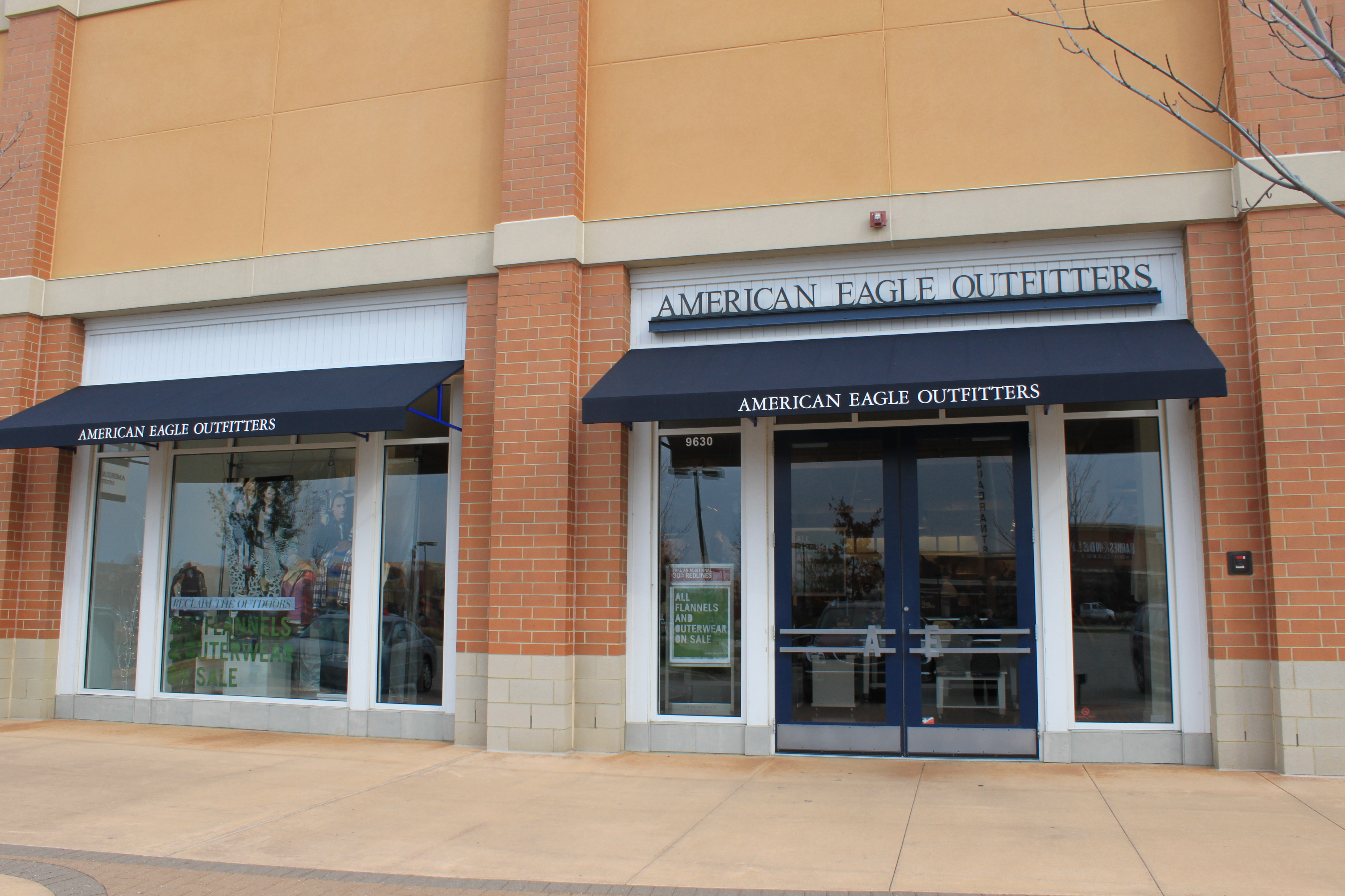 American Eagle Outfitters store, Green Oak Village Place shopping center, Green Oak Township, Michigan